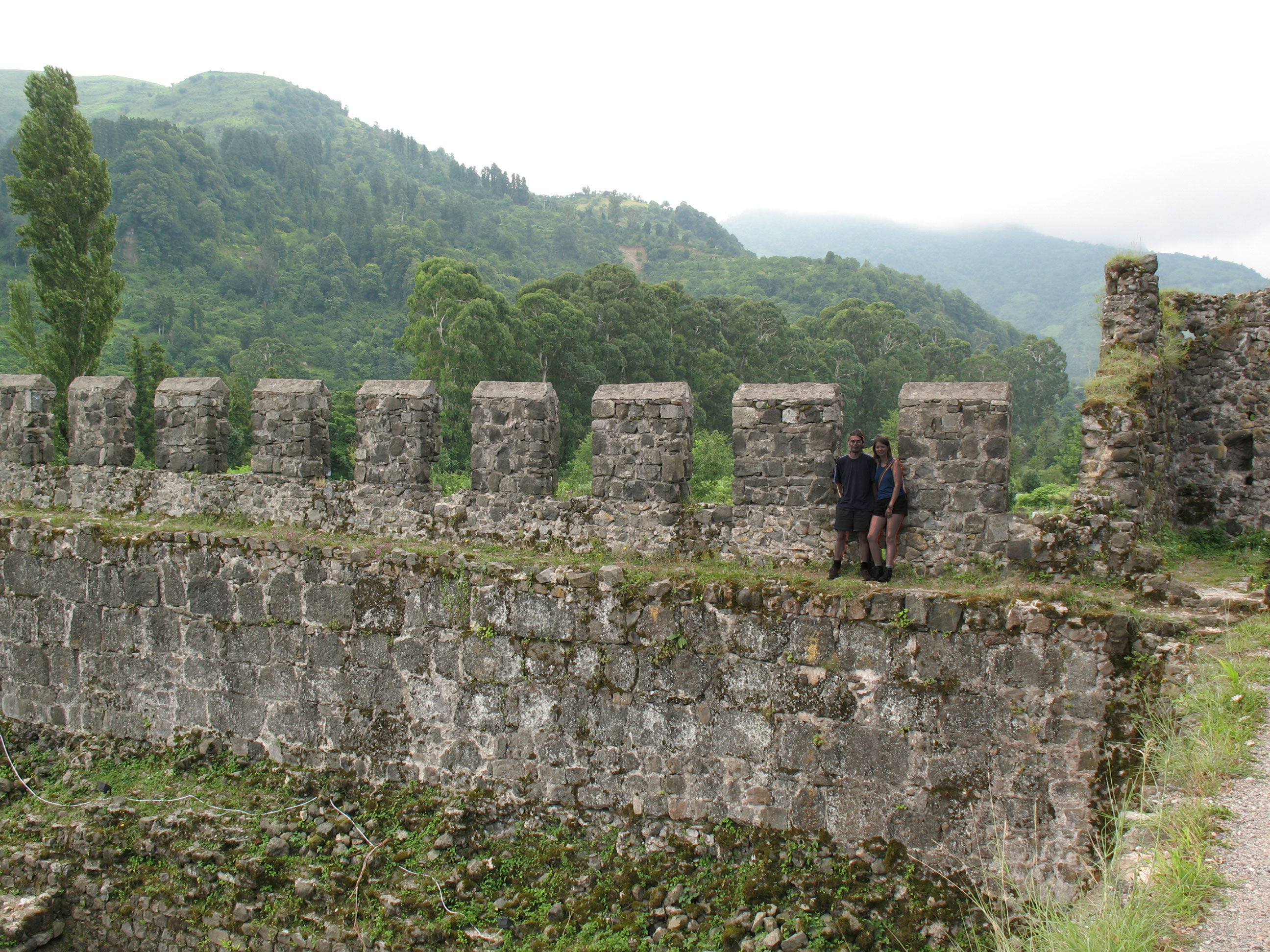 Walls of Gonio fortress in Georgia